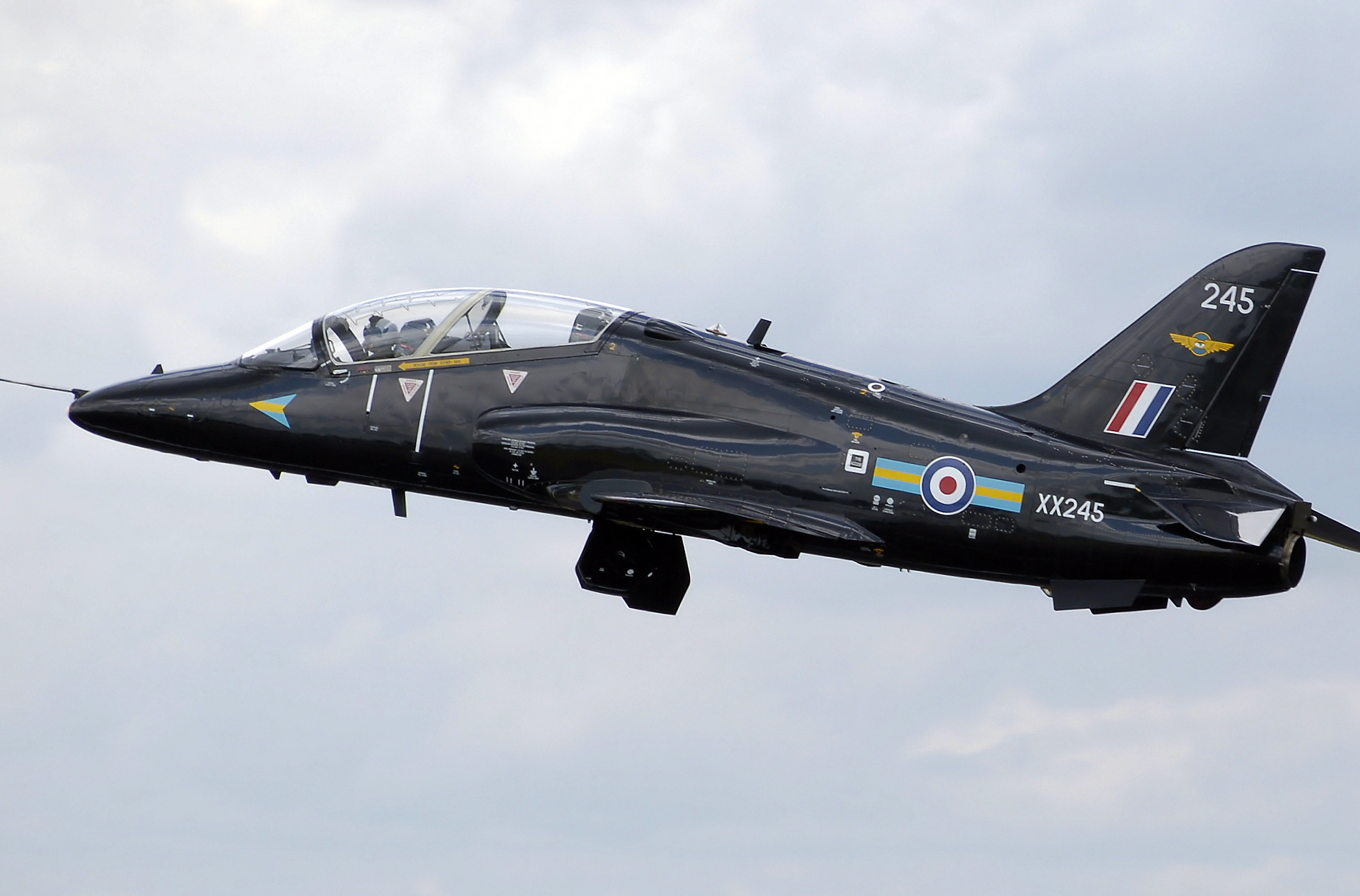 British Aerospace Hawk T1 (XX245) from no. 208(R) Sqn RAF flies at Kemble Air Day 2008, Kemble Airport, Gloucestershire, England.